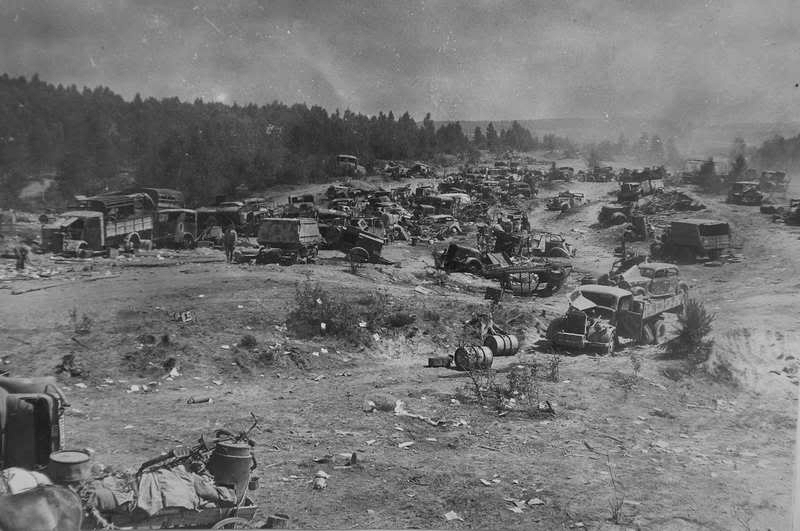 Abandoned and destroyed vehicles of the german 9th army at a road near Titovka/Bobruysk (Belarus). The image is part of a foto series being made to document the war achievements of the the soviet 16th Air Army. (Central Archives of the Russian Ministry of Defence, F. 233, Op. 2356, d. 391, t. 1)